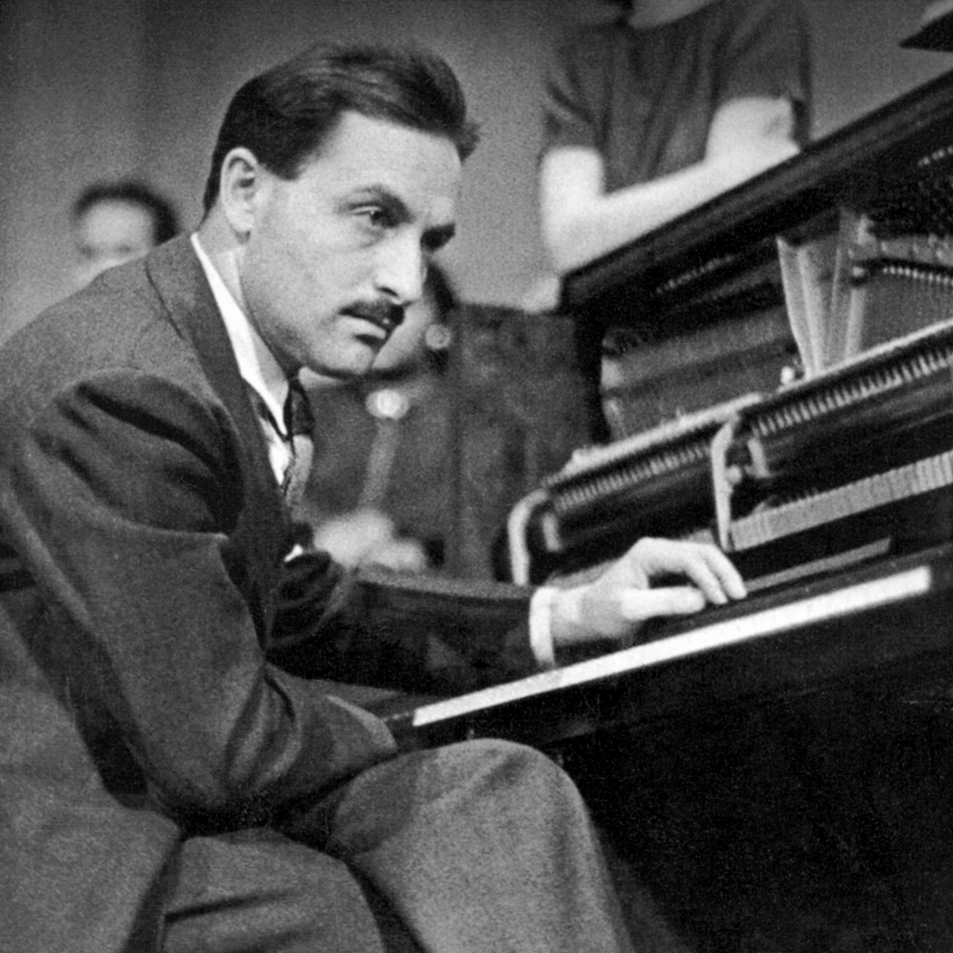 Photograph of Marc Blitzstein performing The Cradle Will Rock in New York City (January 3, 1938) Caption reads as follows: M. Blitzstein, author, orchestra, actor, sound-effects man.